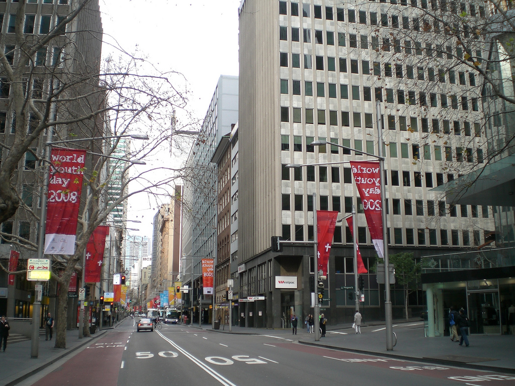 George Street at Hunter Street